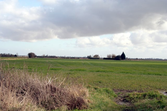 Farm on Meadow Drove, Bourne.